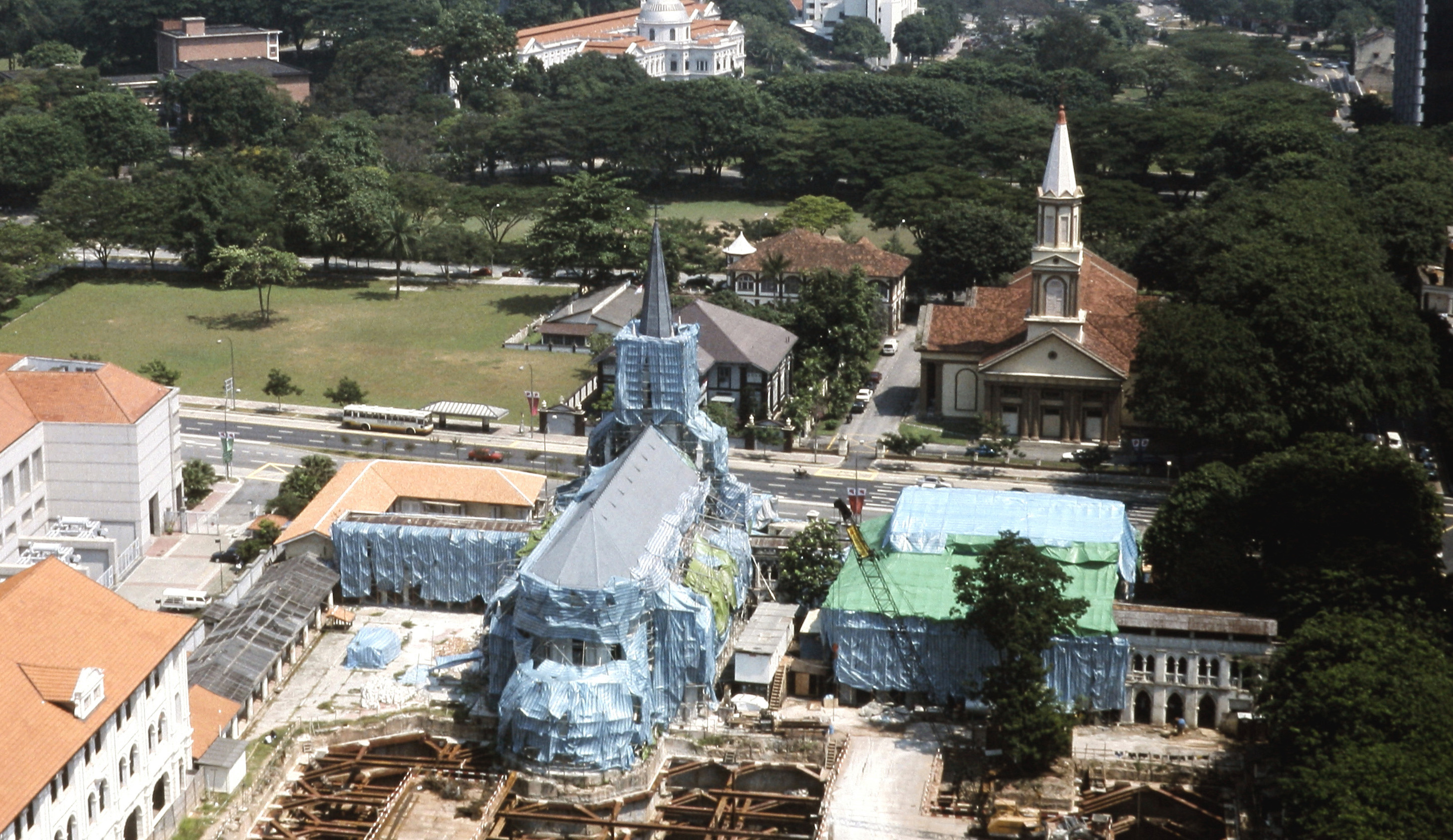 The former Convent of the Holy Infant Jesus Chapel under conservation and reconstruction to become CHIJMES Plaza.